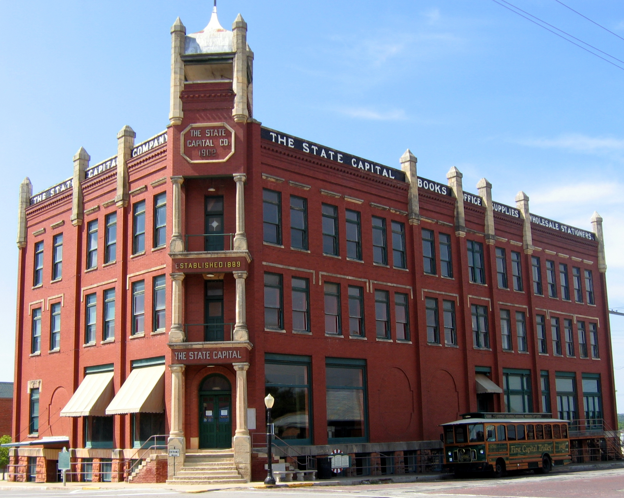 Co-Operative Publishing Company Building